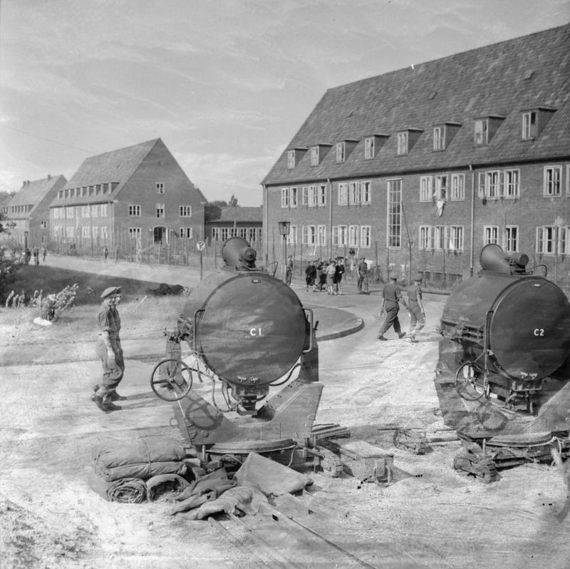 Germany Under Allied Occupation Searchlights set up to illuminate the compound at night of the camp for German political prisoners at Isenbruck barracks near Hamburg. In the background are the barrack block buildings used to house the detainees.